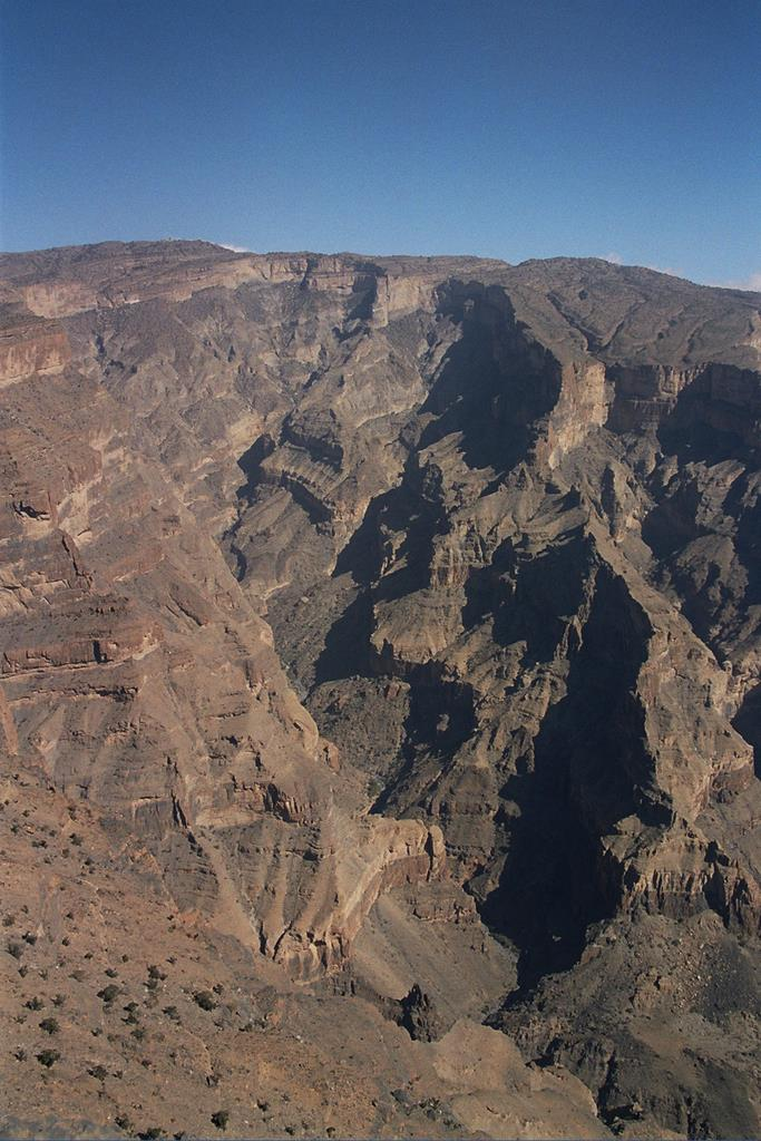 Jebel Shams, located in Oman, is the 'Grand Canyon' of the Middle East